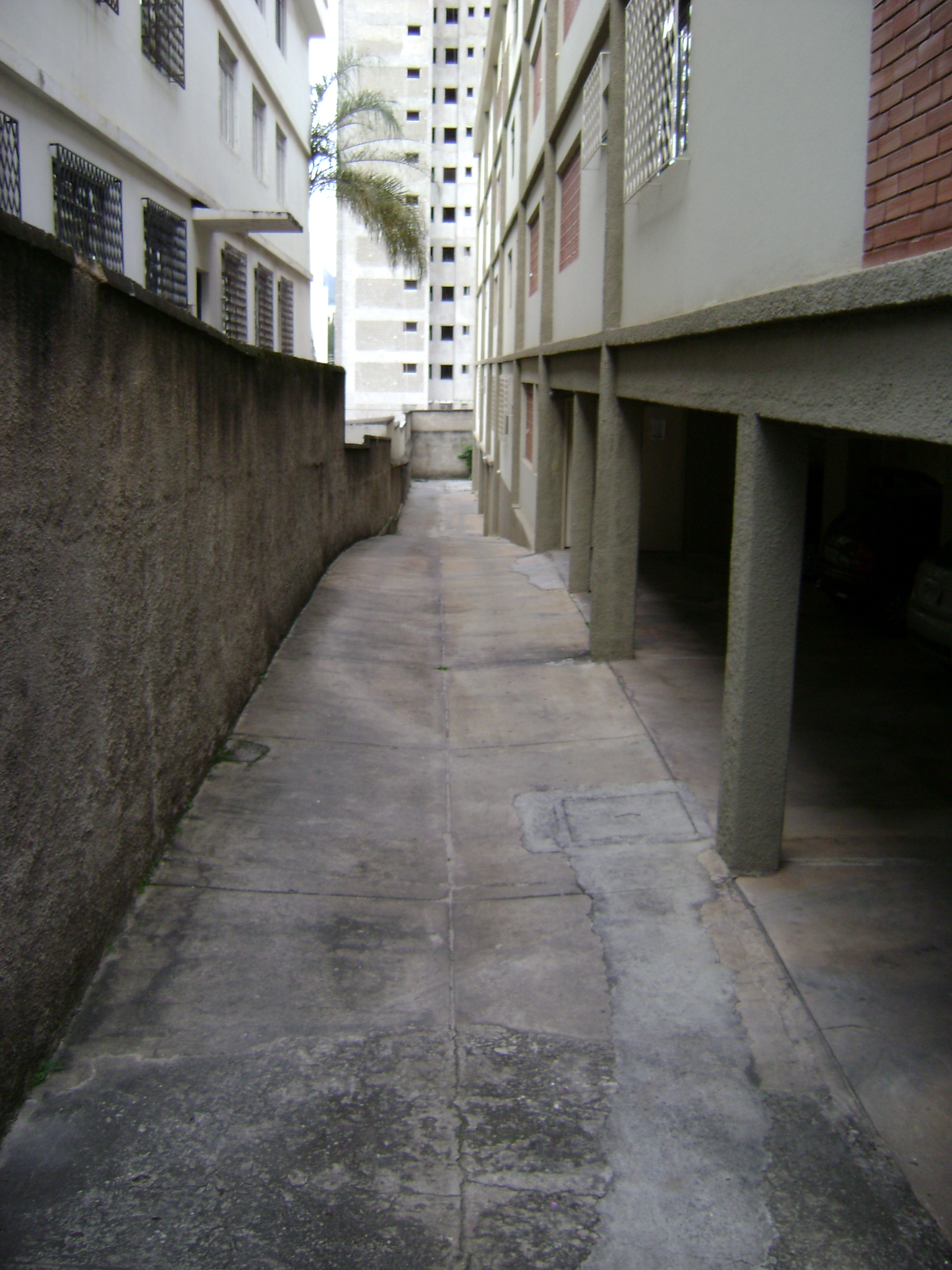 Garagem em Belo Horizonte